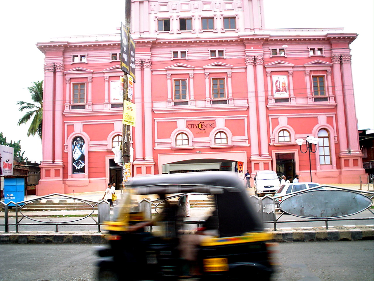 Kannur City Centre on Fort Road. Photograph: Shijaz Abdulla